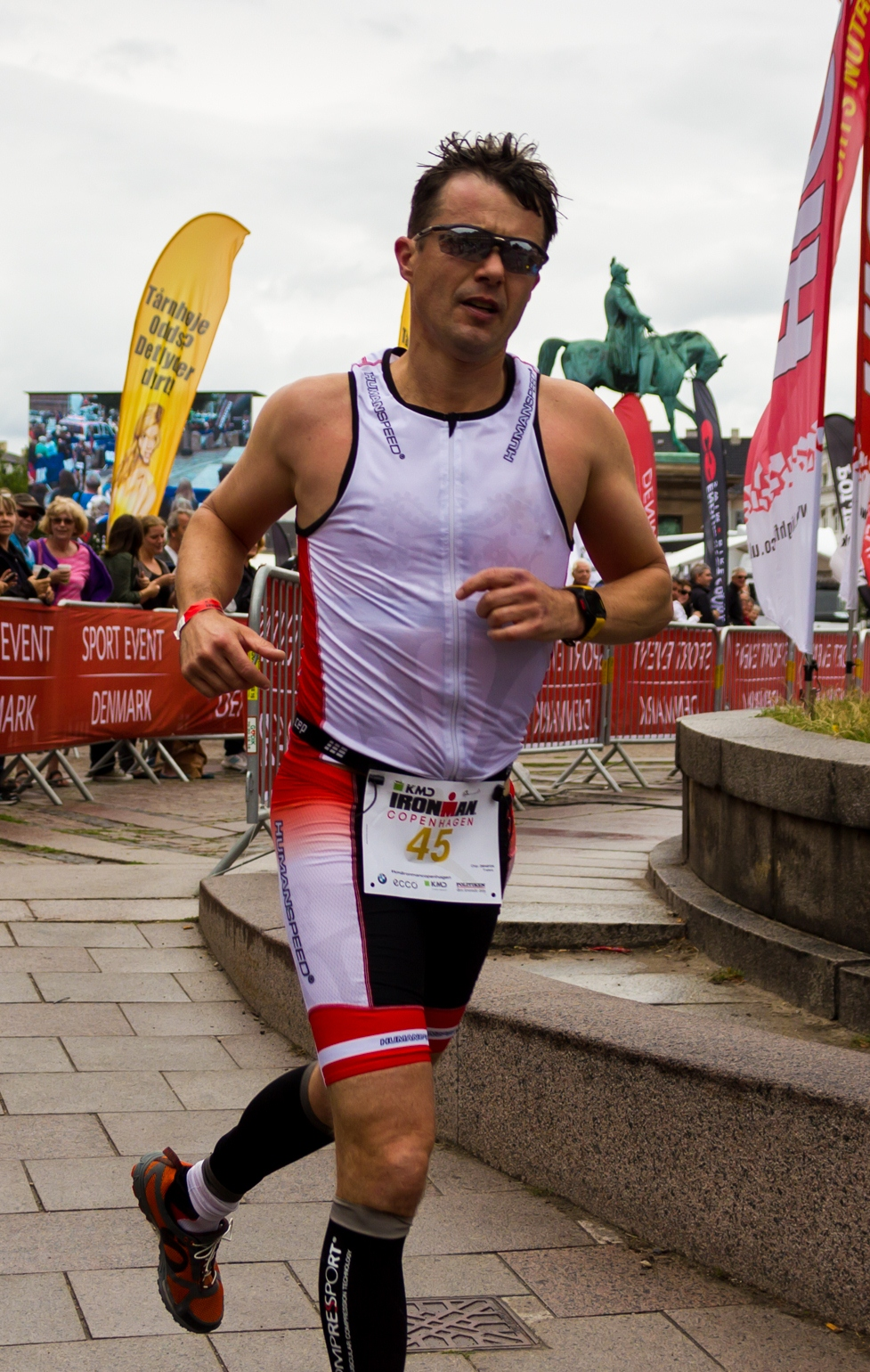 Crown Prince Frederik running